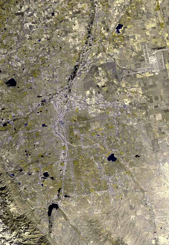 The raw satellite imagery shown in these images was obtain from NASA and/or the US Geological Survey. Post-processing and production by